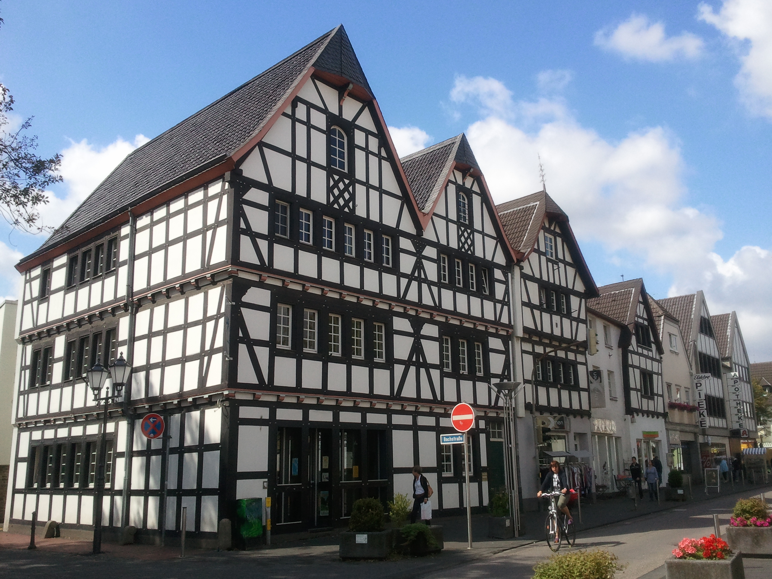 Timber-framed buildings at the Hauptstrasse (Main street) of Rheinbach.